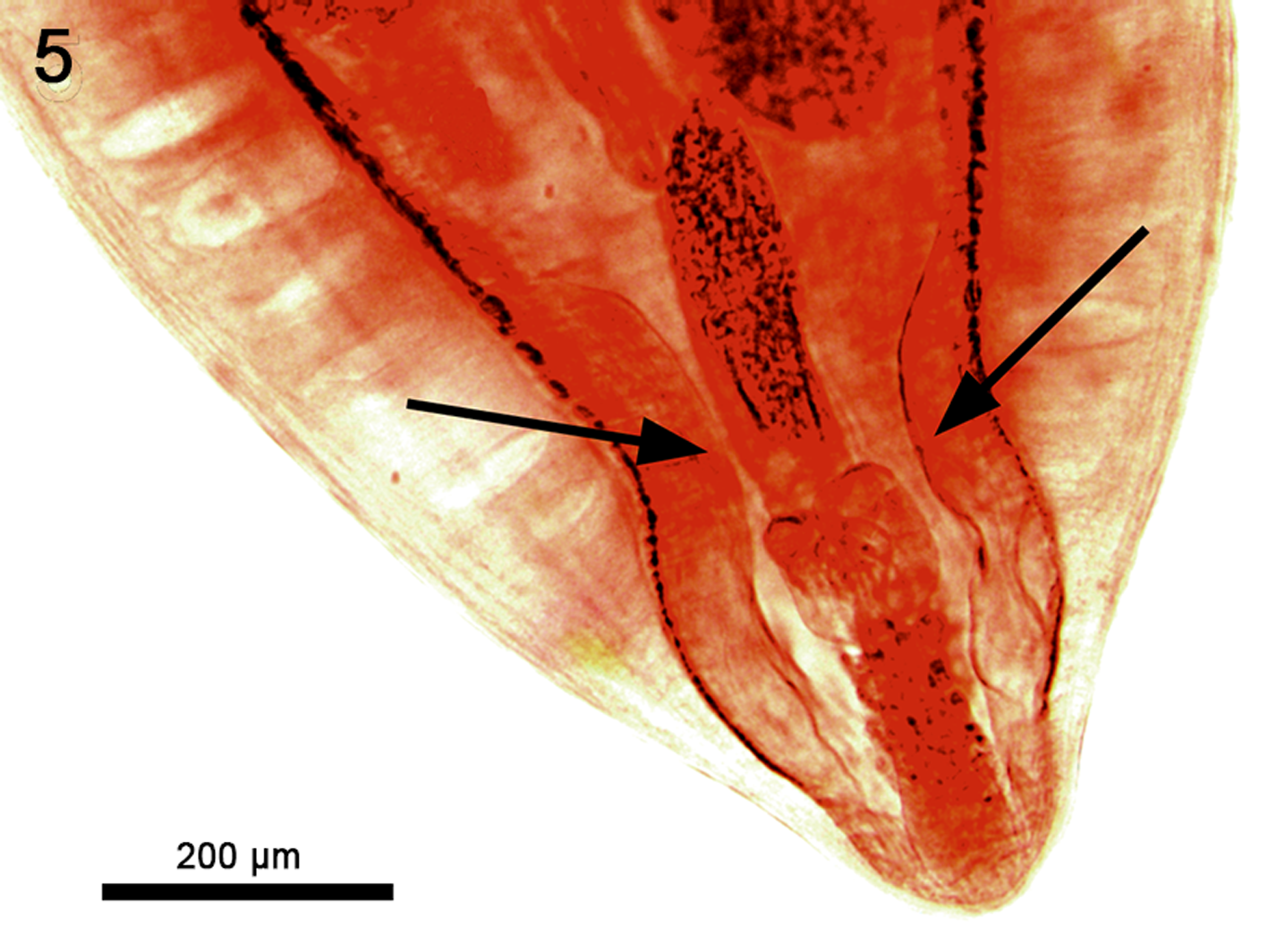 Fig. 5 of the paper. The posterior trunk of a female Cathayacanthus spinitruncatus from Leiognathus equulus in Vietnam showing two paravaginal muscular lobes (arrows).